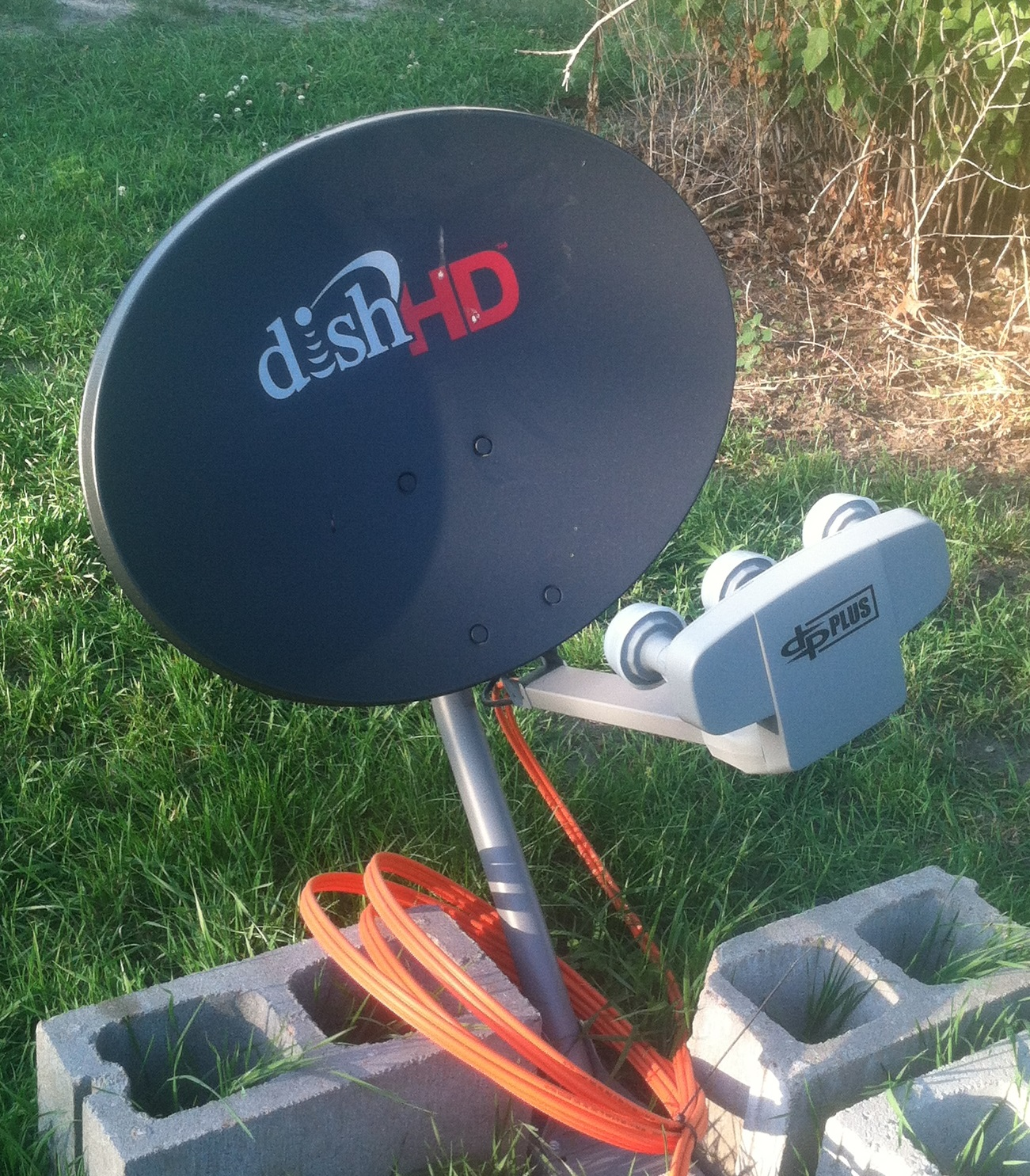 This is a photo of the Dish HD satellite Dish taken in 2012